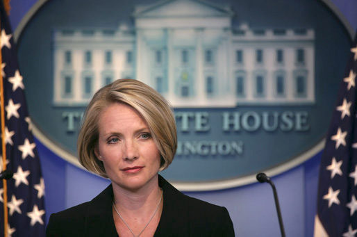 Dana Perino listens to a reporter's question Monday, Sept. 17, 2007, in the James S. Brady Briefing Room, during her first briefing since being named White House Press Secretary. Ms. Perino replaced Tony Snow, who stepped down last week. (Details)